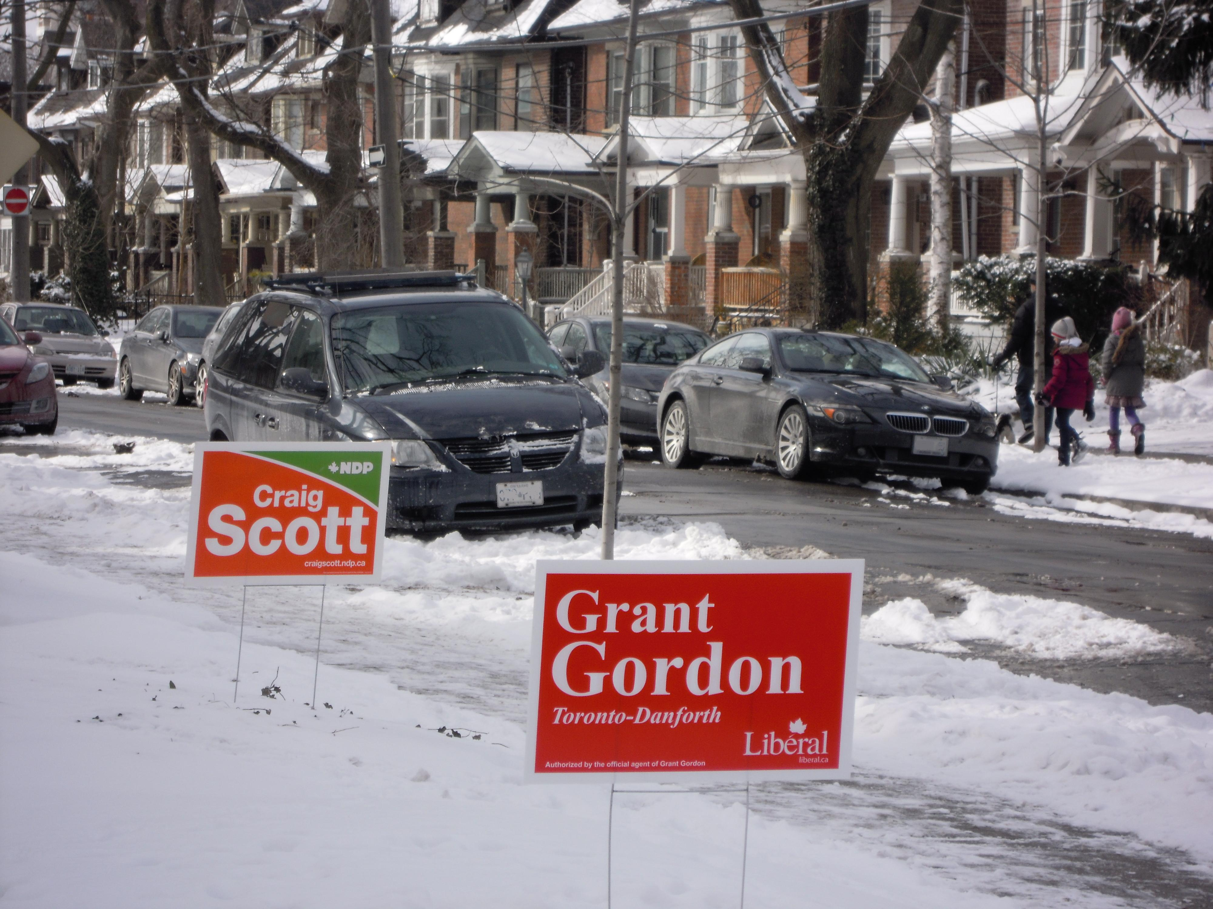 Election signs for the by-election in the federal riding of Toronto-Danforth, on Browning Avenue in Toronto, Ontario, Canada. The death of the former Member of Parliament, Jack Layton, prompted the call for the by-election to fill the empty seat, with the by-election to occur on March 19, 2012.